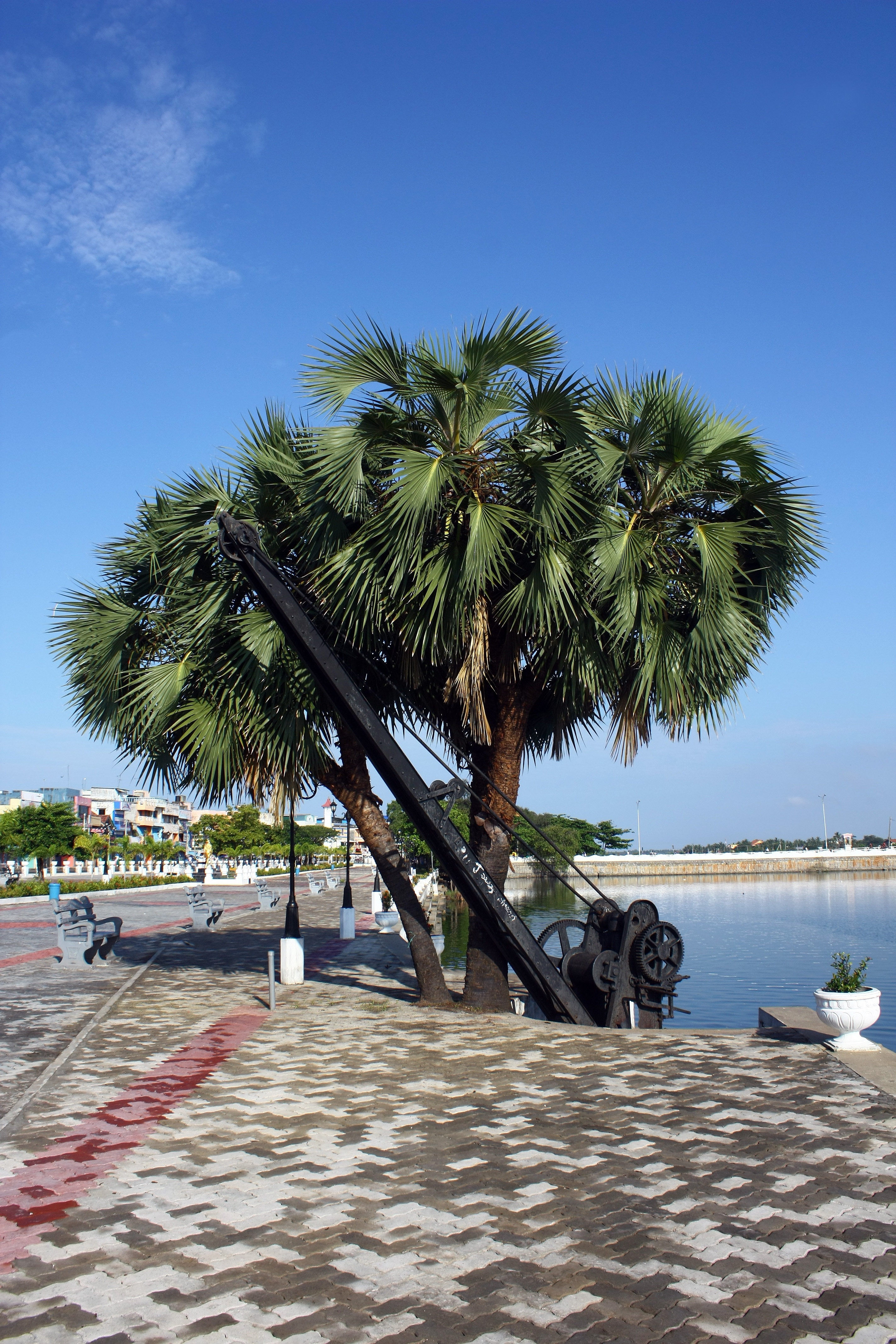 Hyphaene thebaica in Batticaloa, Sri Lanka. It was brought by Portuguese during their rule in Ceylon